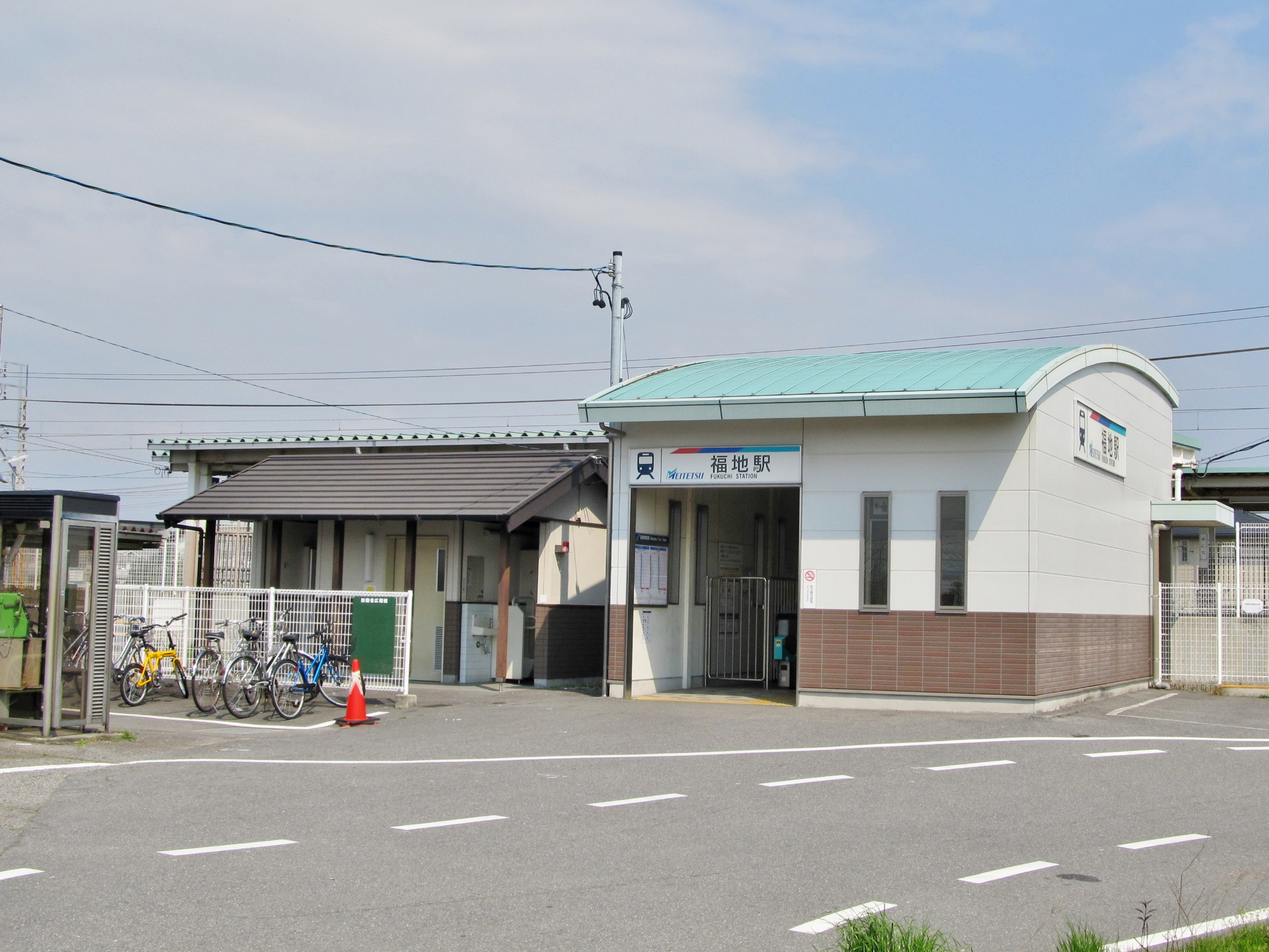 Nagoya Railroad Nishio Line Fukuchi Station Building